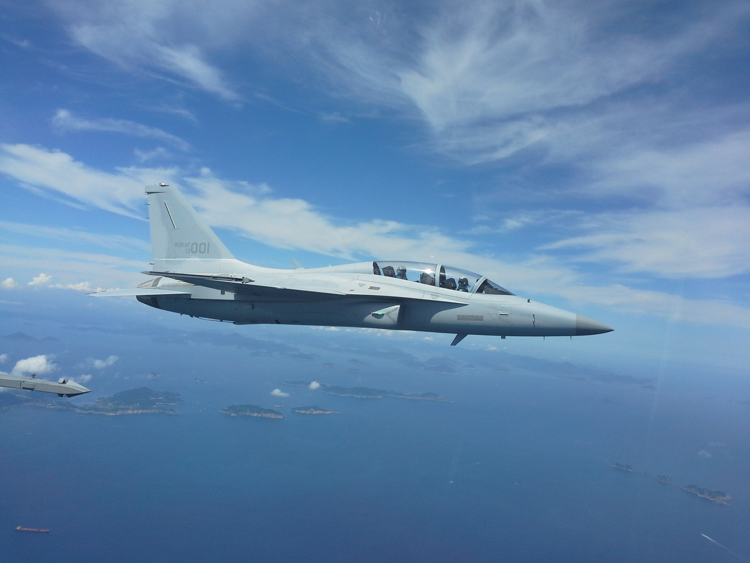 FA-50 Fighting Eagle Test Flight Light Combat FA-50 Fighting Eagle / Air to Air during test Flight / Photo by KAI (2012)